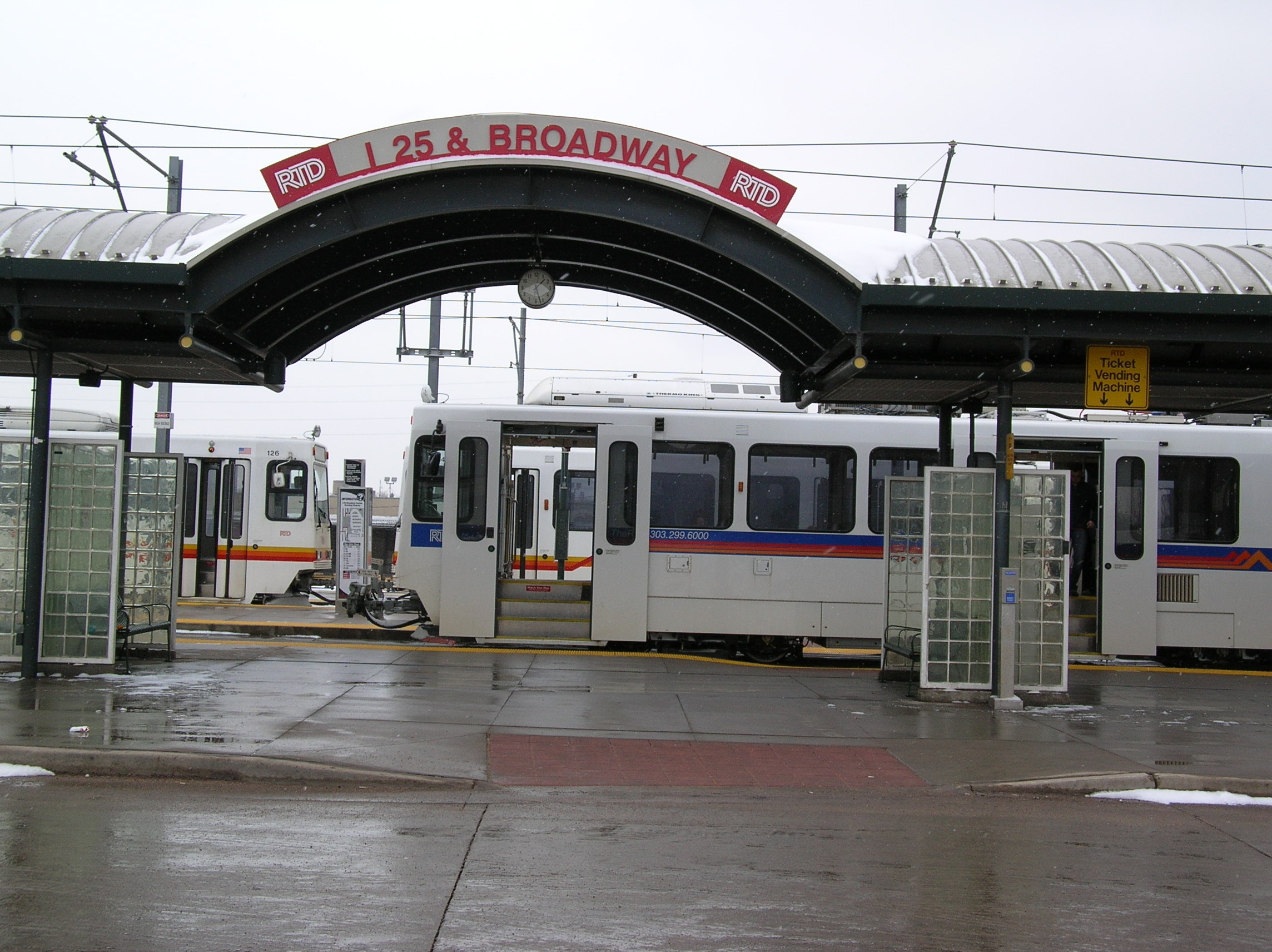 A north and southbound train at the I-25 & Broadway RTD station in Denver, CO